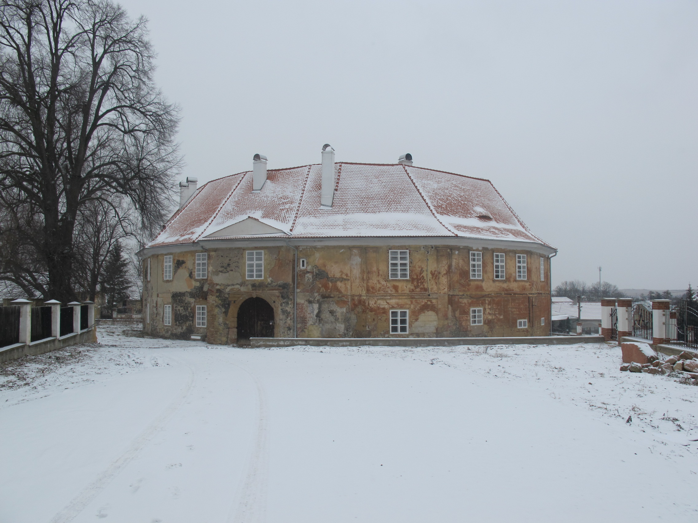 Castle in Nepomyšl